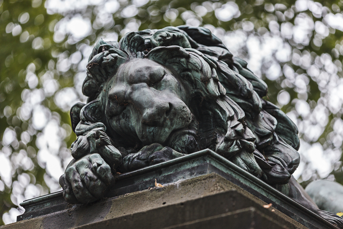 sculpture of the sleeping lion at central cemetry mainz, germany